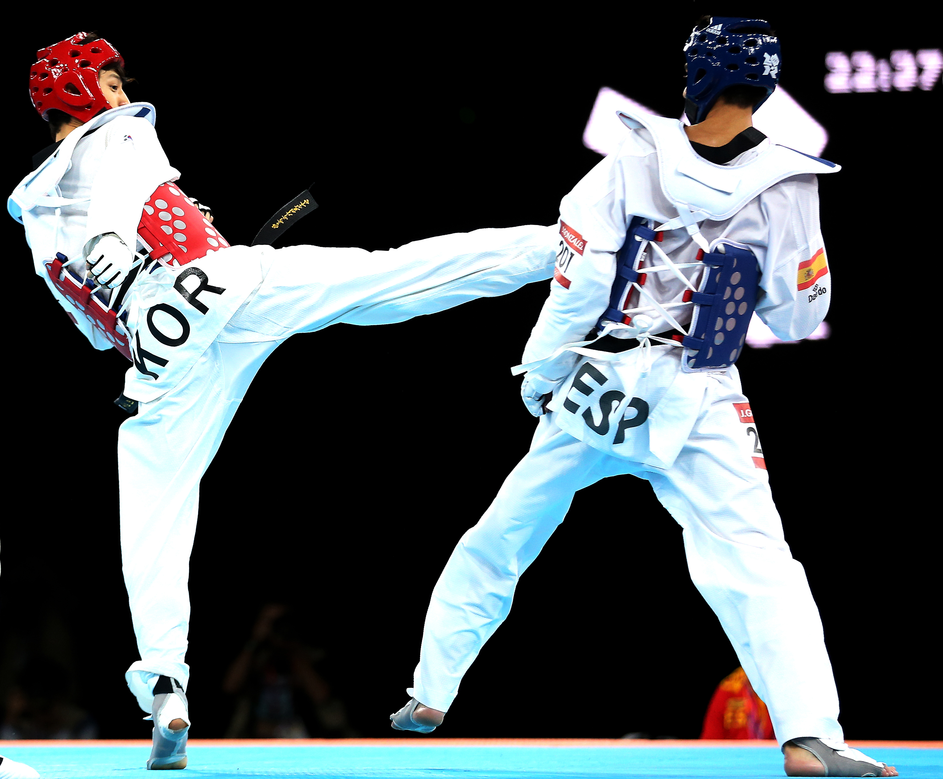 2012 London Olympic Games Korean Taekwondo Lee Dae-hoon won silver medal in men's -58kg at the ExCel Arena. 2012.08.09 Photo by Korean Olympic Committee Ministry of Culture, Sports and Tourism Korean Culture and Information Service 2012 런던 올림픽 남자 태권도 -58kg 이대훈 은메달 획득 사진제공 - 대한체육회 문화체육관광부 해외문화홍보원